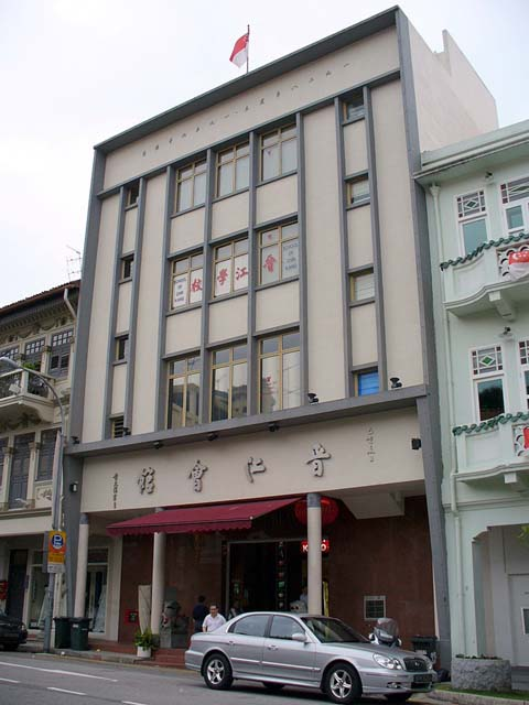 The Chin Kang Huay Kuan at 27 Bukit Pasoh Road, Singapore.